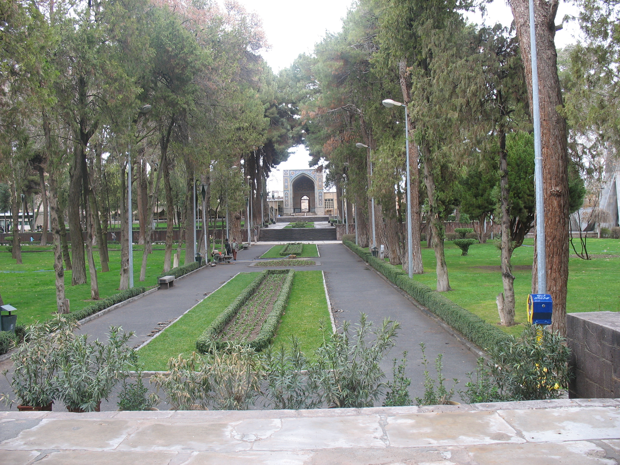 Old entrance of Khayyam garden at Imamzadeh Mahruq mausoleum. The garden Omar Khayyam and Imamzadeh Mahruq have been buried in. Neyshabur